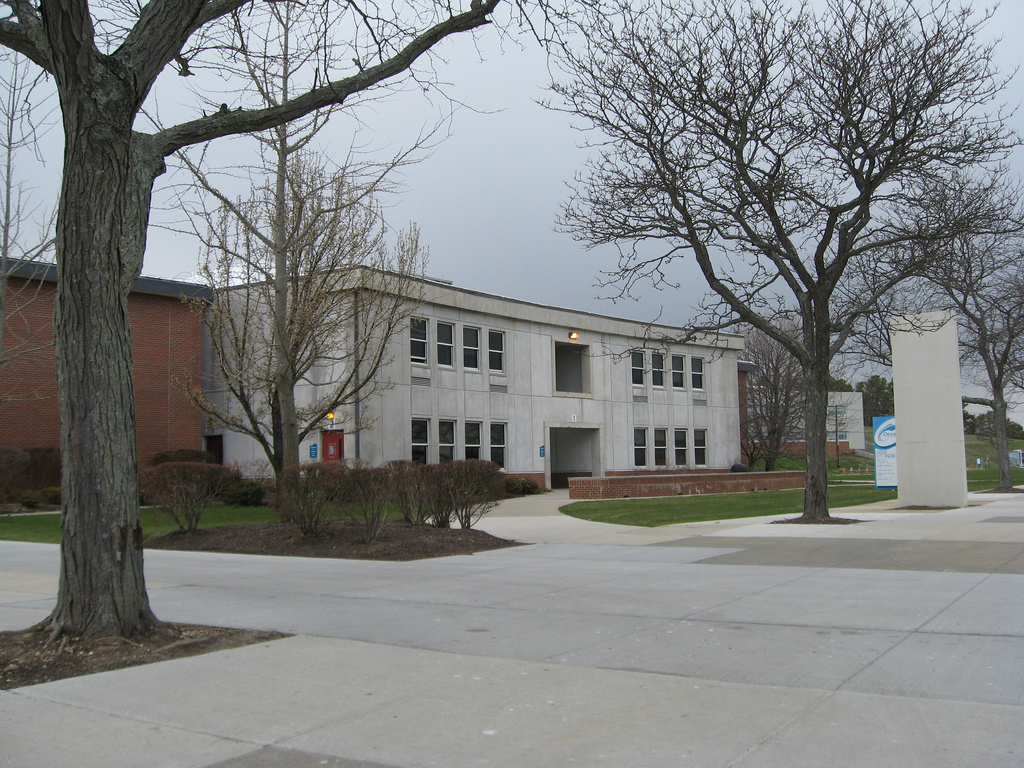 The Russell building at Ocean County College, in Toms River, New Jersey.